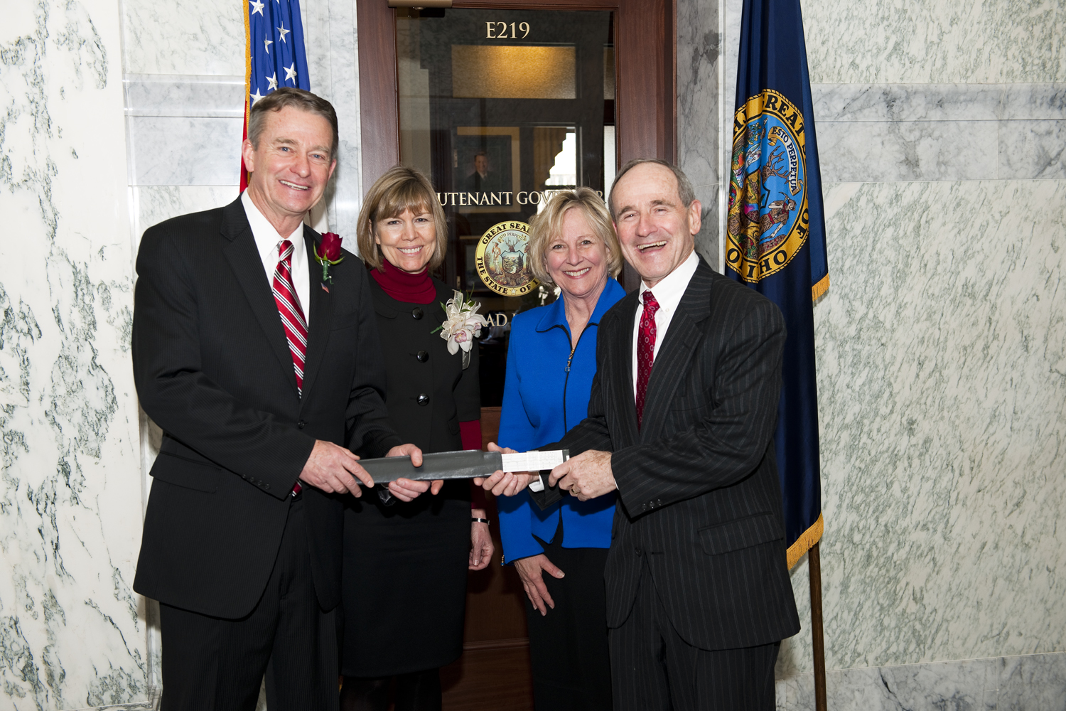 Lt. Governor Brad Little returning former Lt. Governor James Risch's slide ruler "computer" found in the Lt Governor's desk.